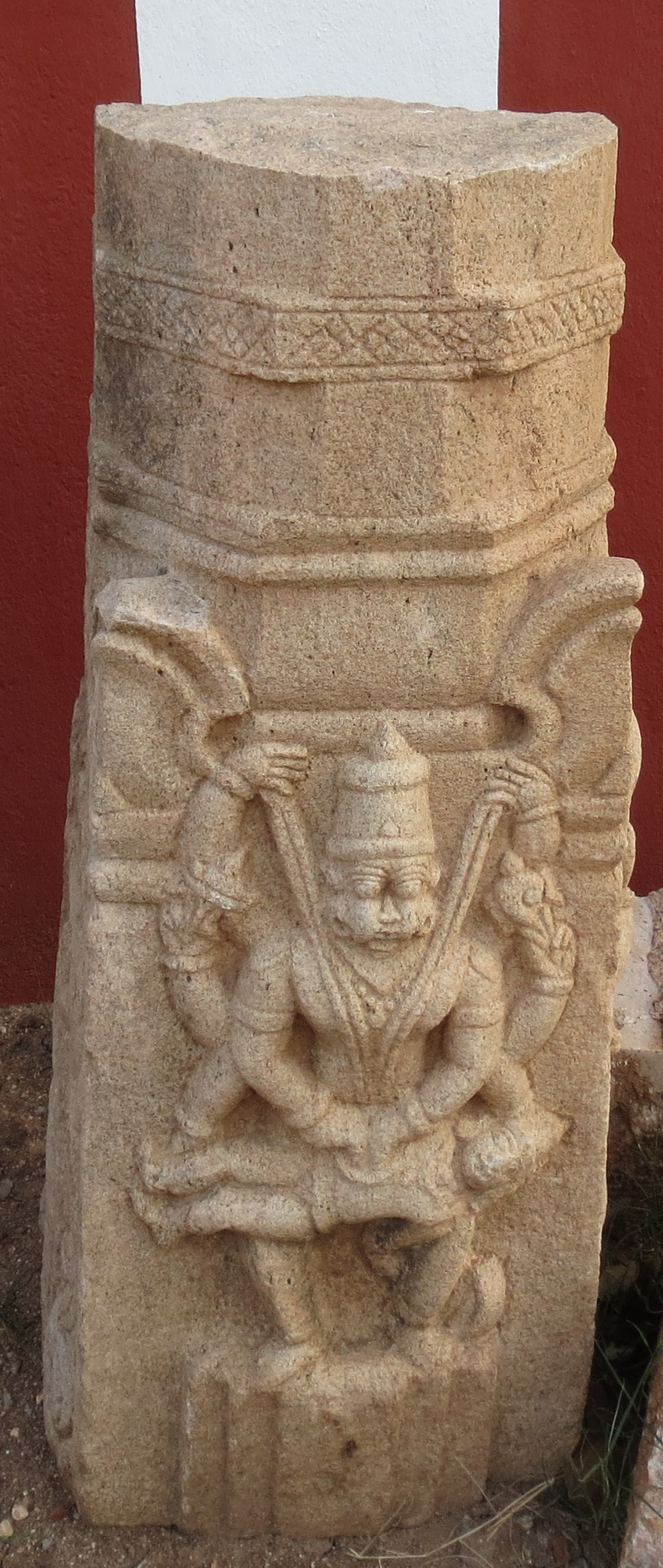 Narasimma avathara sculpture on a ruined piller of old venkatesaperumal temple, parameswaranpalayam (coimbatore)